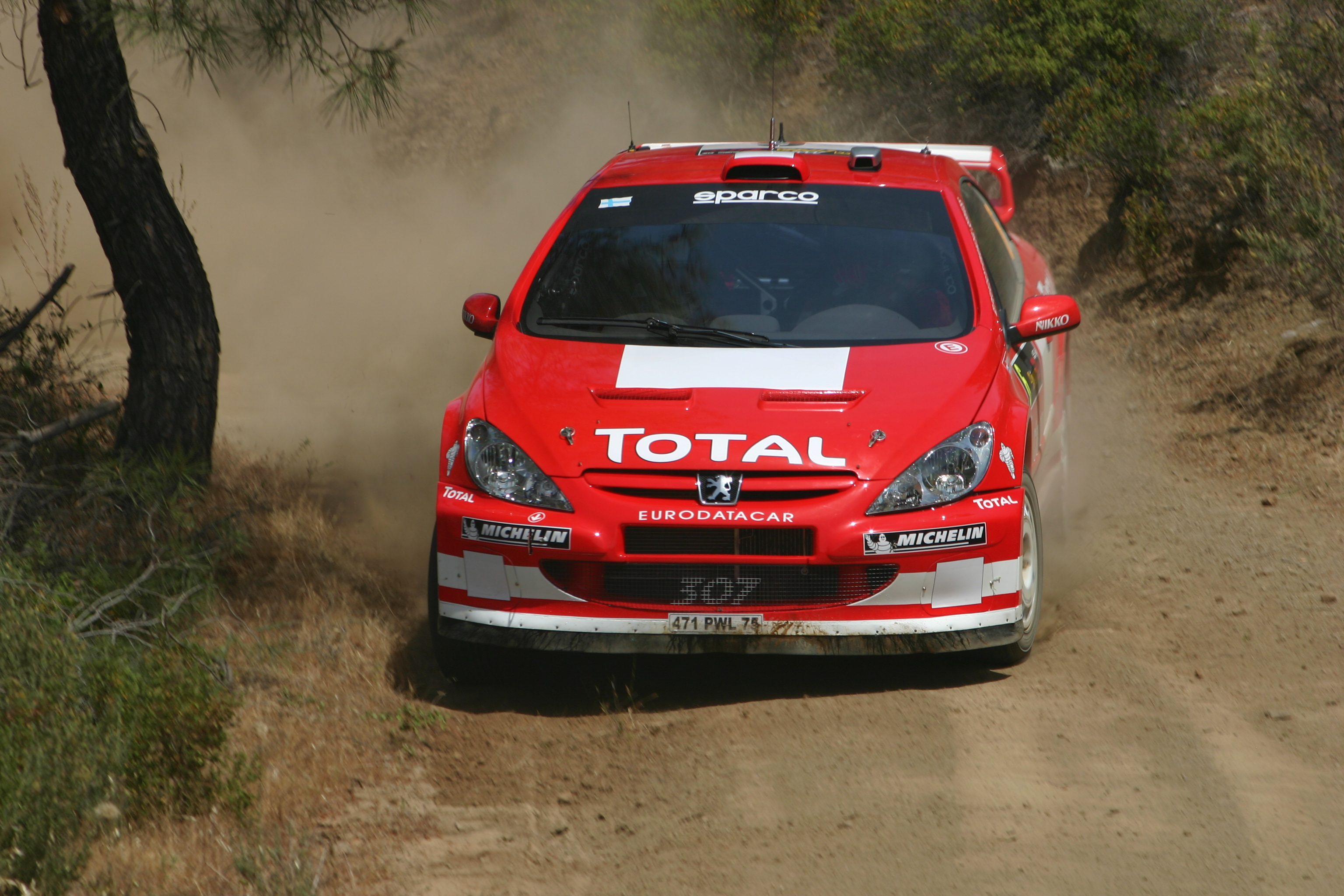 Harri Rovanperä driving his Peugeot 307 WRC during the shakedown of the 2004 Cyprus Rally.